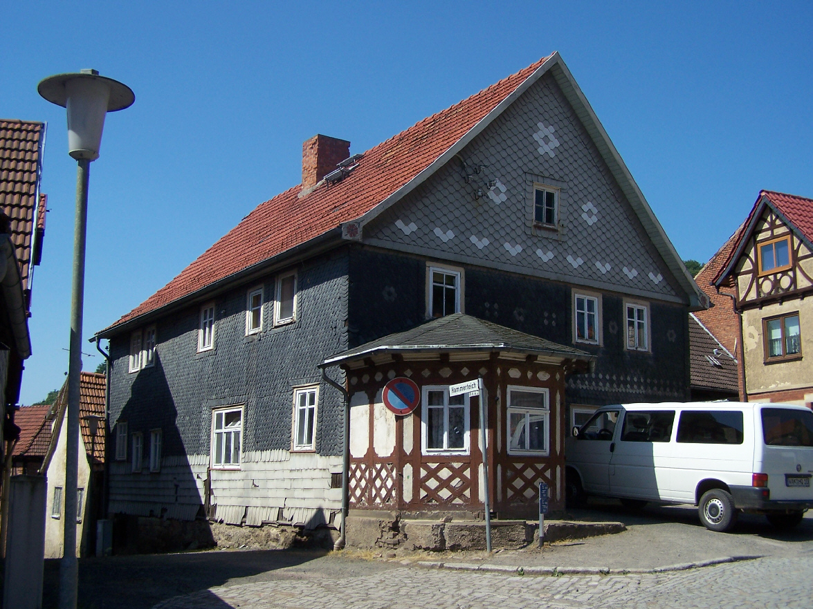 In Steinbach, Hammerteich, a regional typical houseform.